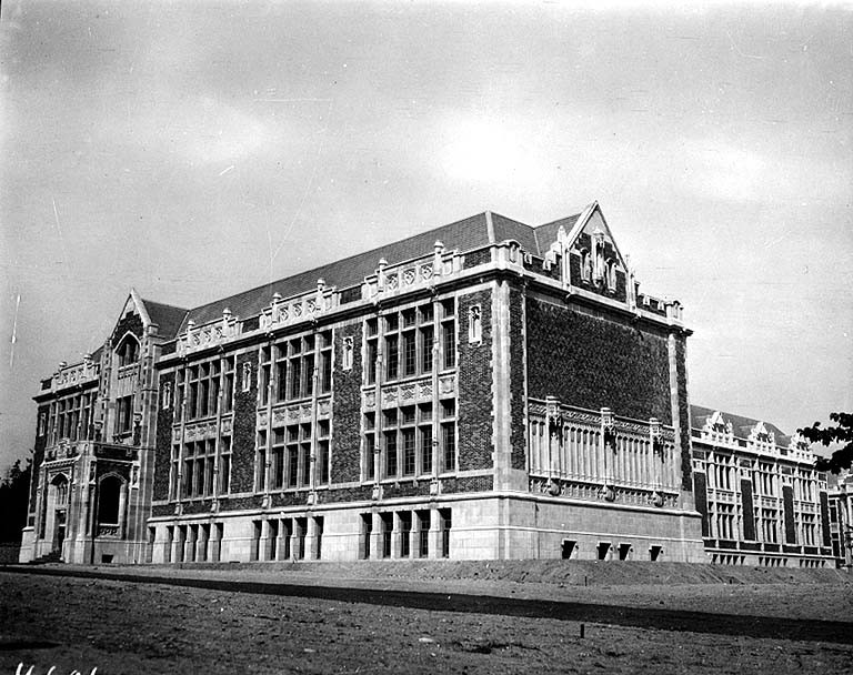 From John Cobb field notebook: Philosophy Hall, Univ. of Wash. 1922 Name later changed to Savery Hall. Subjects (LCSH): Savery Hall (Seattle, Wash.); College Buildings--Washington (State)--Seattle; University of Washington